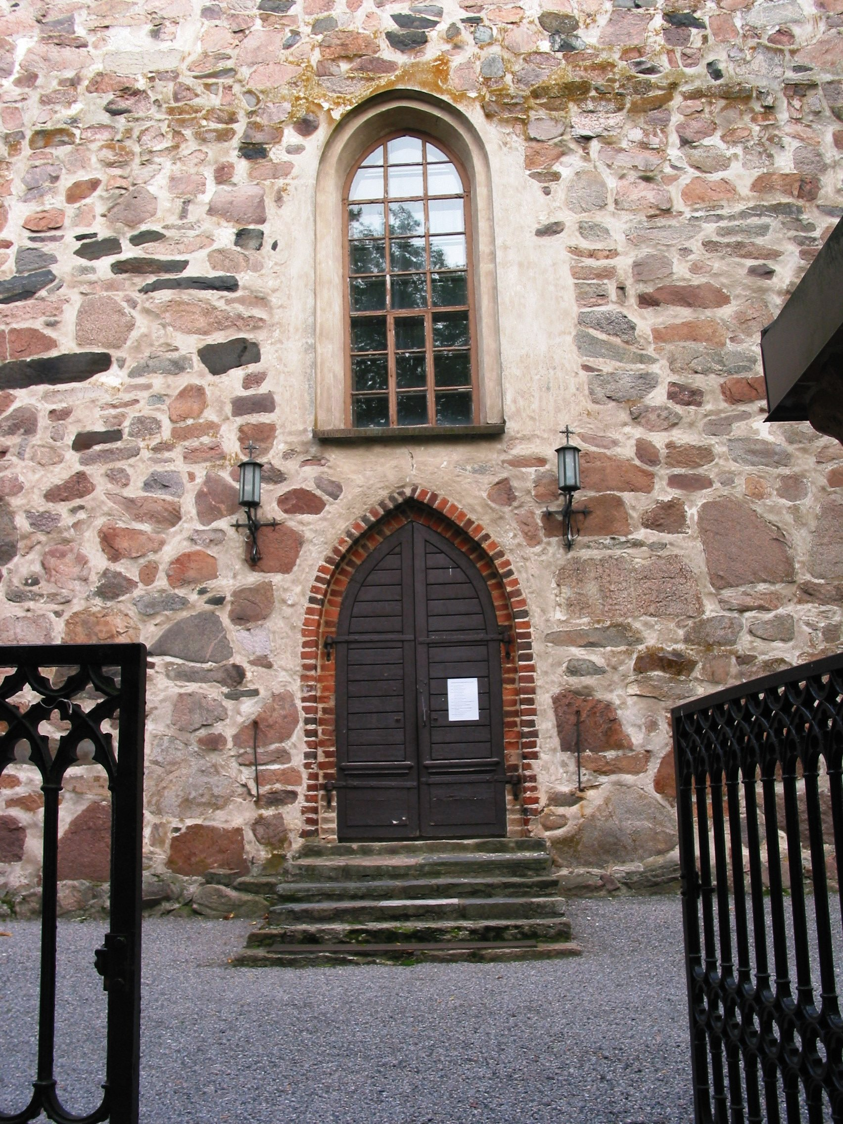 Perniö Church from west